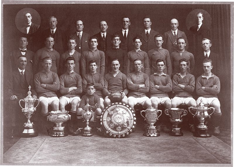 The 1921-22 Linfield football team.